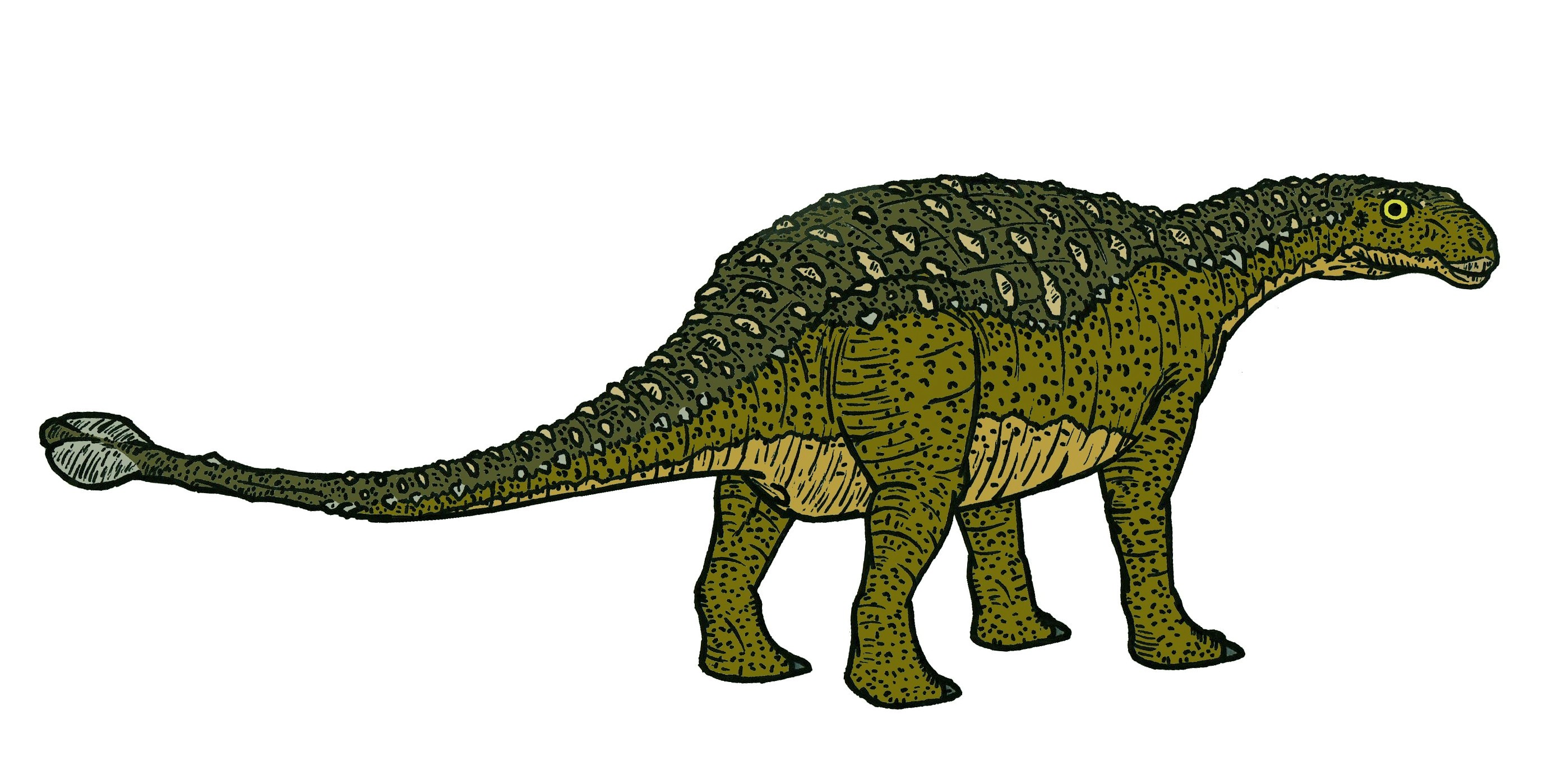 Talarurus, an ankylosaurian dinosaur from Gobi desert, dated to the late cretaceous, 84 MYA. ( Version 2 ).